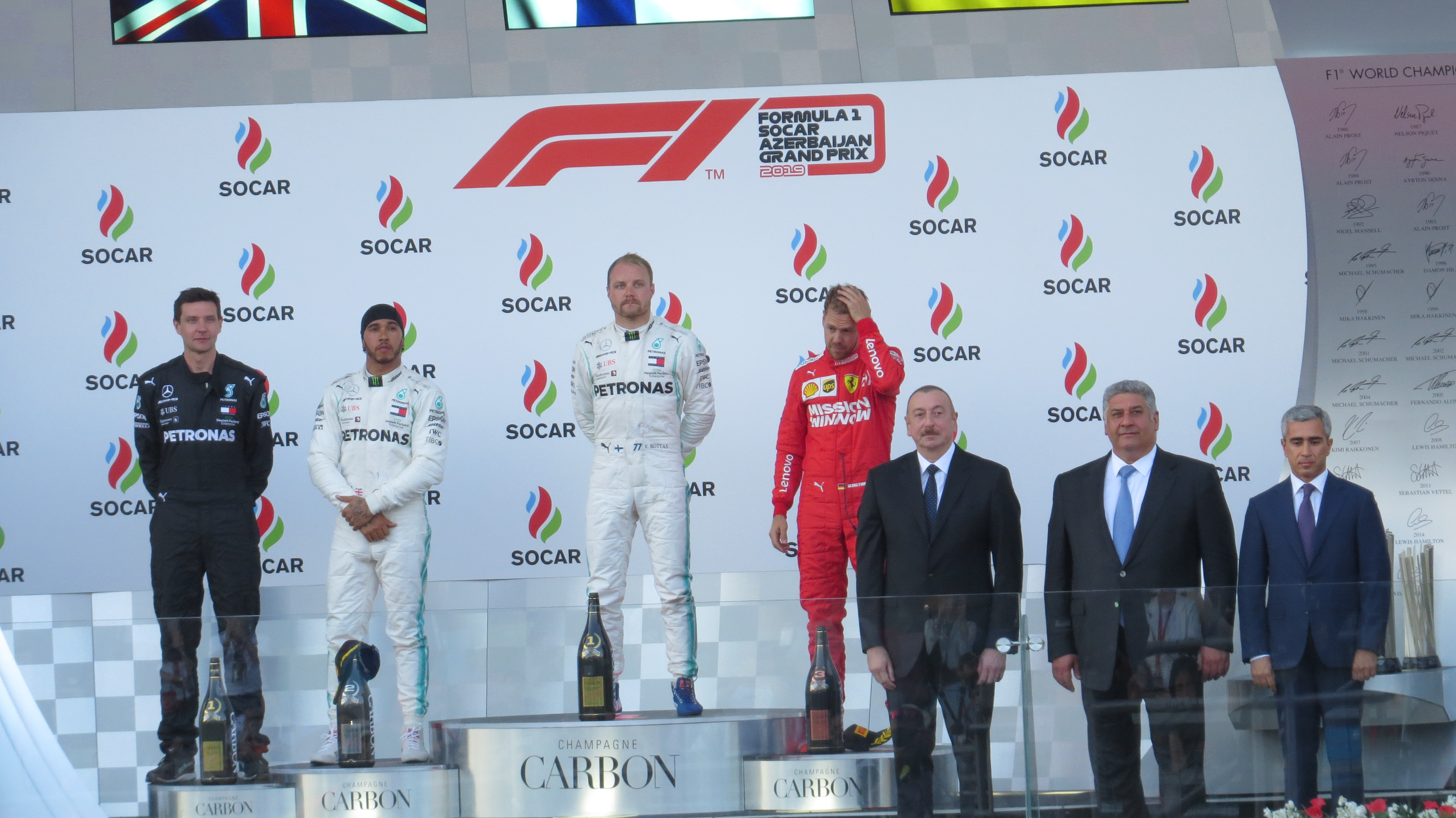 Formula 1 Azerbaijan Grand Prix winners Valtteri Bottas, Louis Hamilton, Sebastian Vettel, and constructors trophy taker for Mercedes with the President of Azerbaijan and other officials.